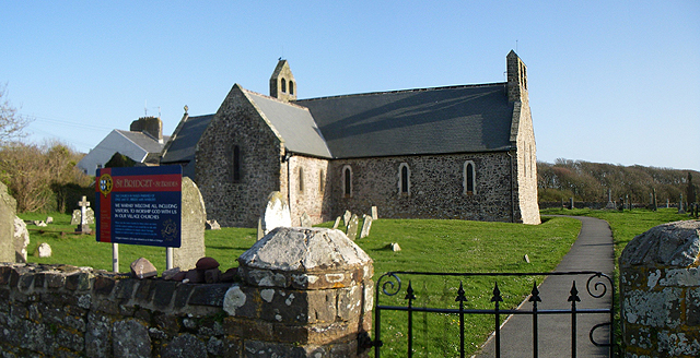 St. Bridget. The church of St. Bridget at St. Brides.